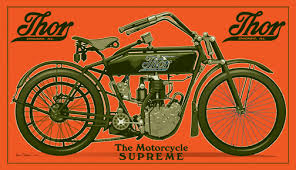 Thor motorcycle advertisement